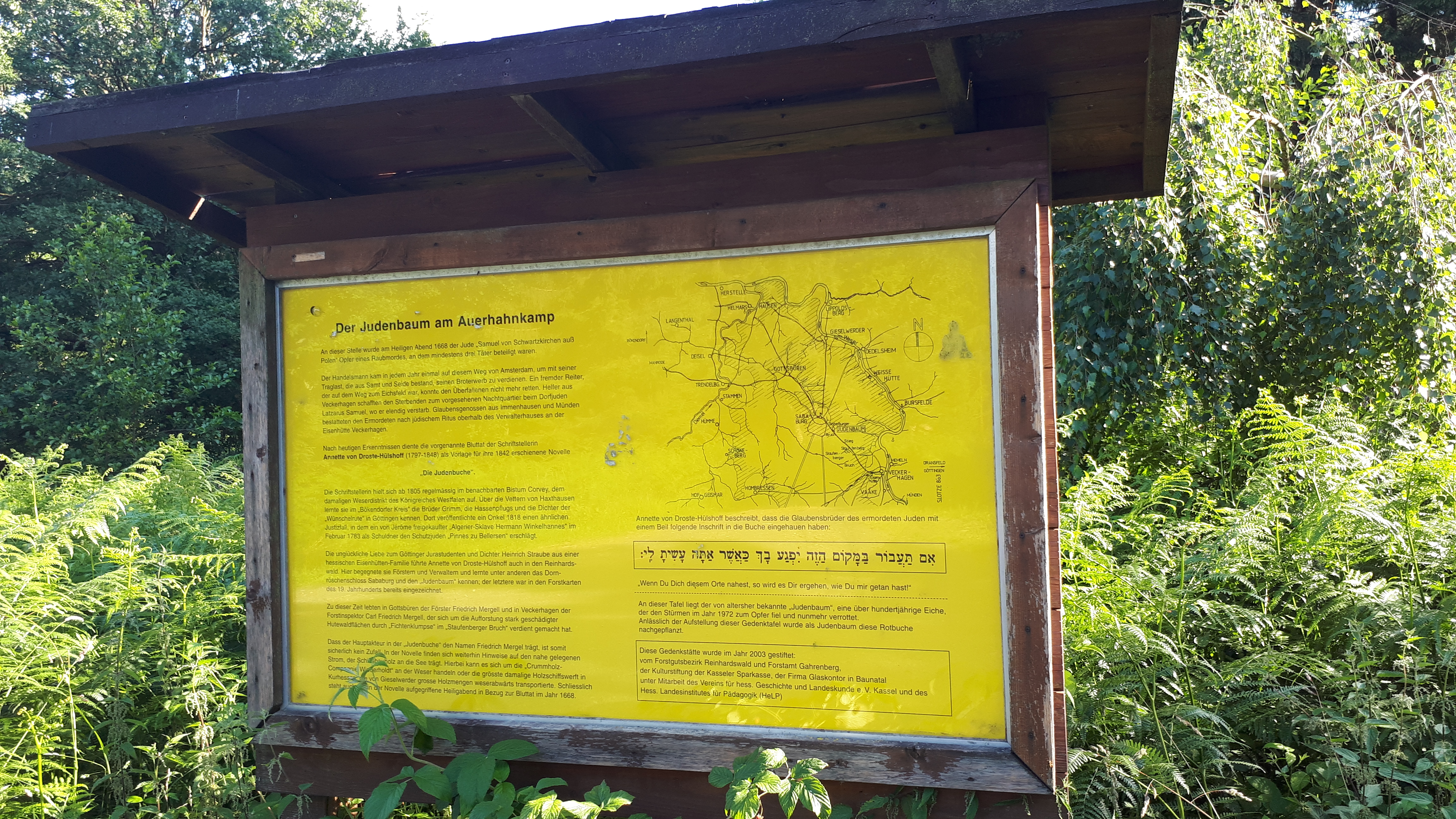 Memorial plaque recalling the former "Judenbaum" in the Reinhardswald Forest, Hesse, Germany